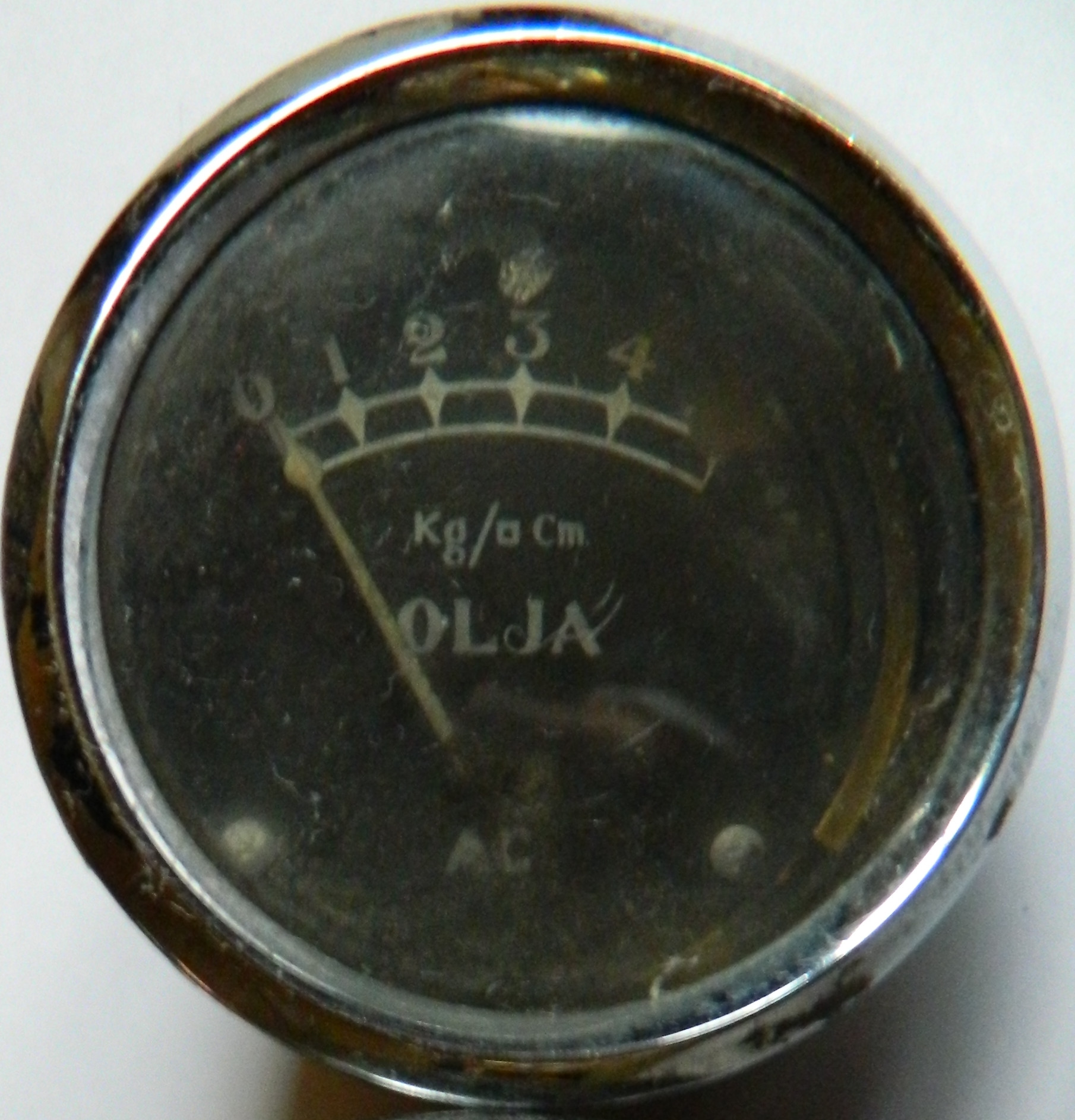 another kg/cm² pressure gauge